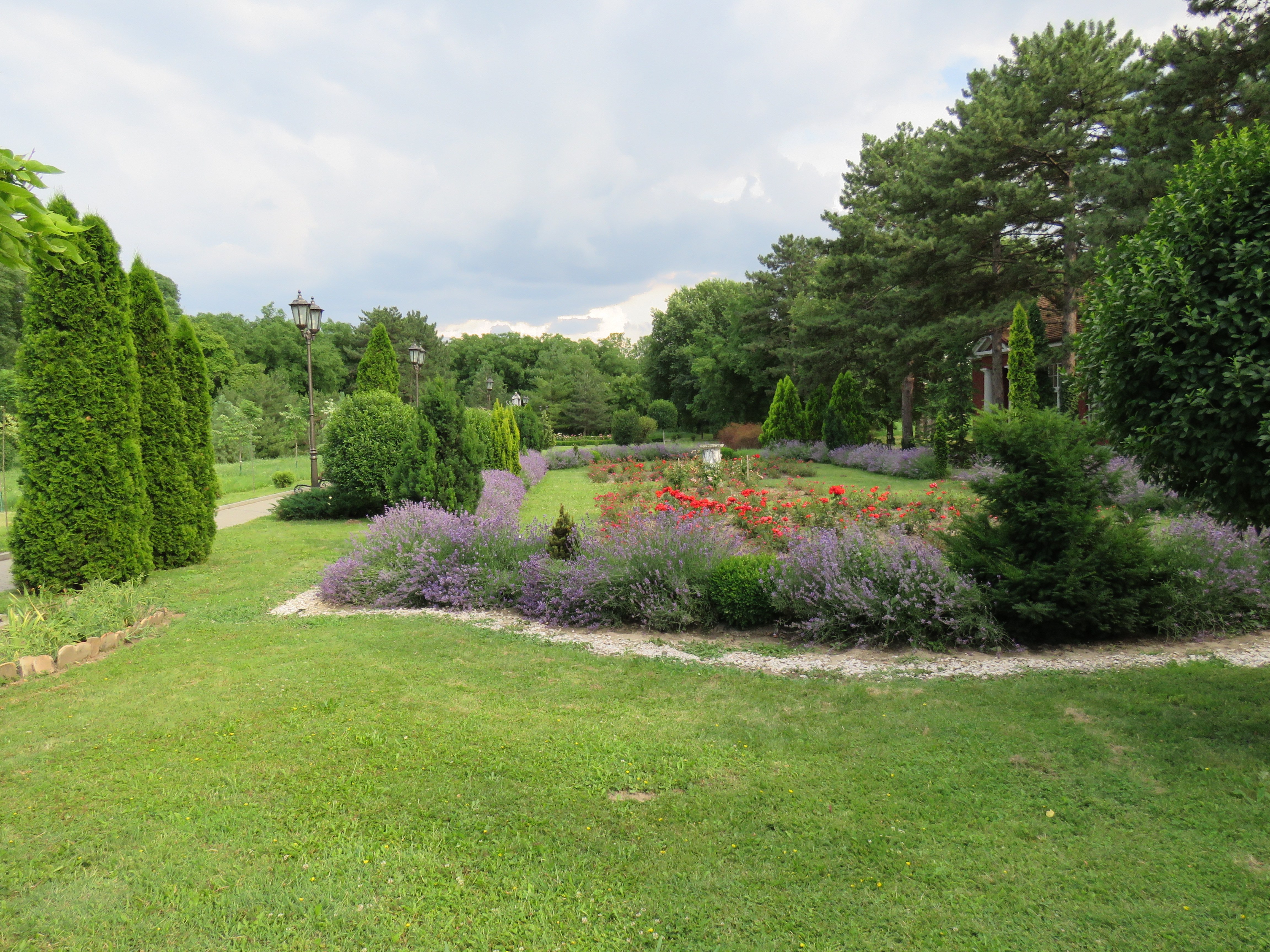 Castle in Ečka, built by family Dunđerski.